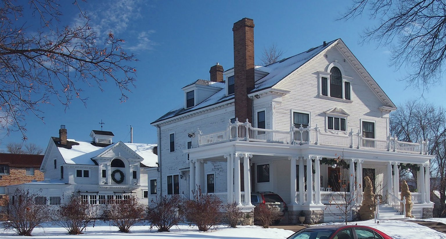 John G. and Minnie Gluek House and Carriage House, 2447 Bryant Ave S, Minneapolis, Minnesota, USA. Viewed from the northwest.